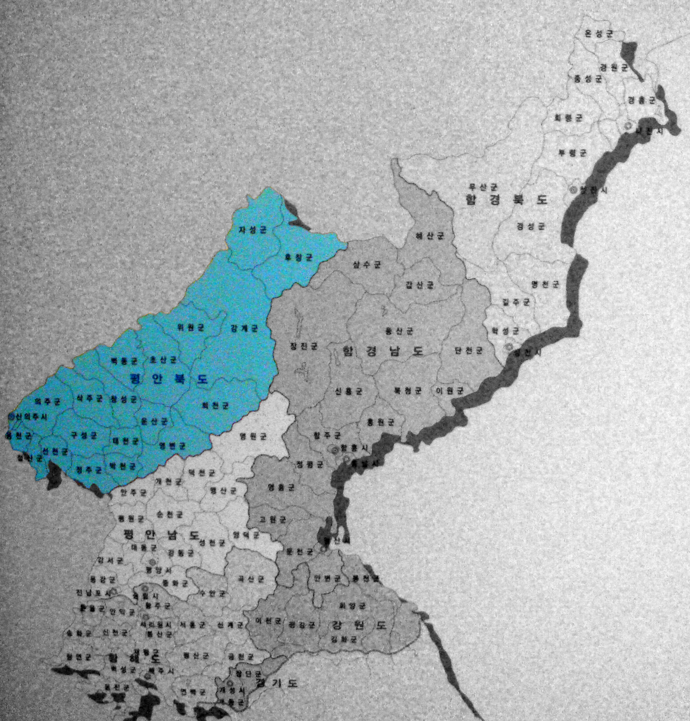 Locator map of P'yŏngan-pukto province of ROK (de-facto under North Korean control)